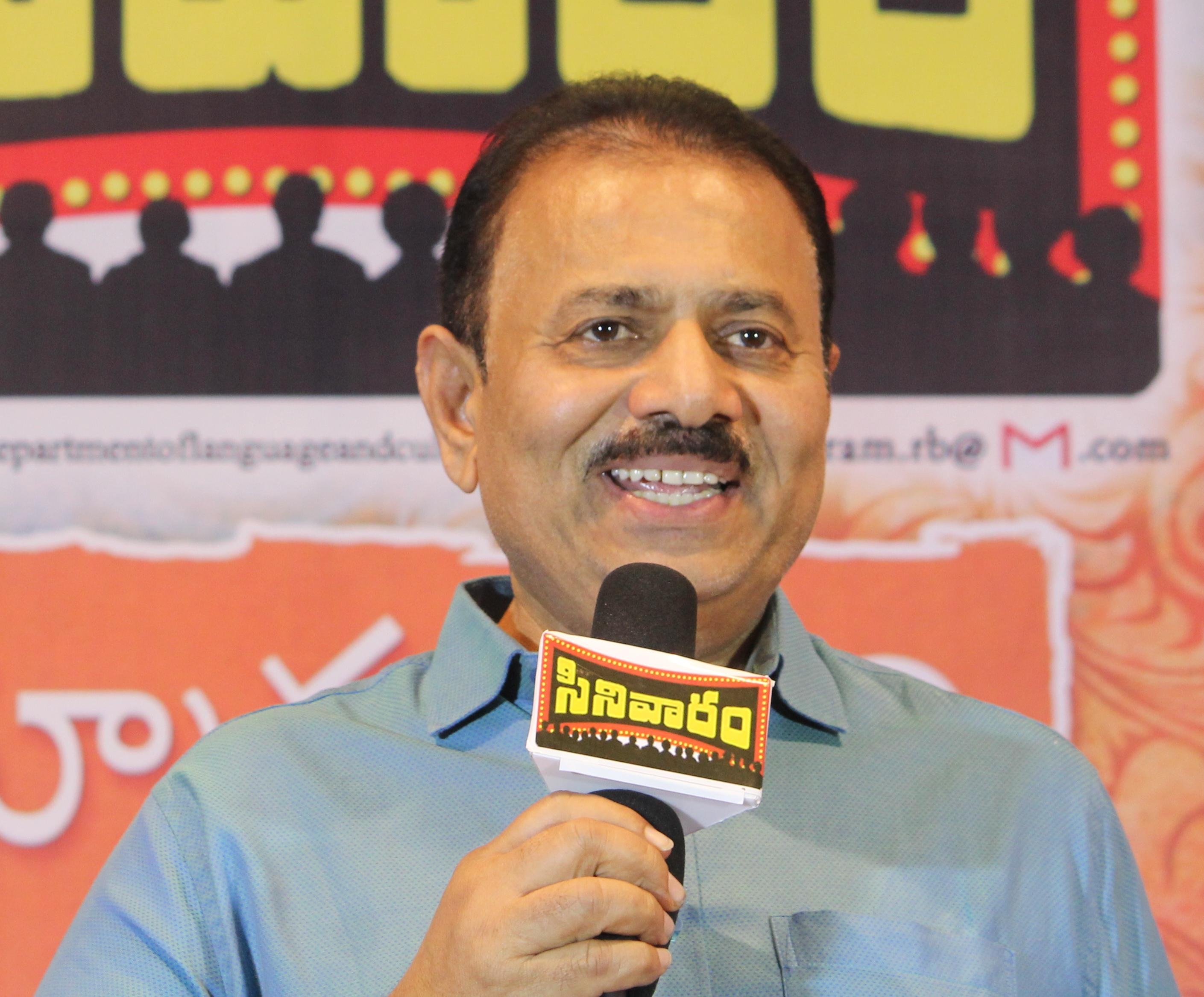 Samudrala Venugopal Chary in Cinivaram, Ravindra Bharathi, Hyderabad